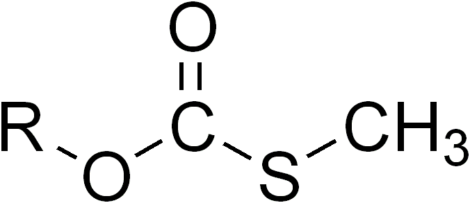 general chemical structure of a methyl thiocarbonate